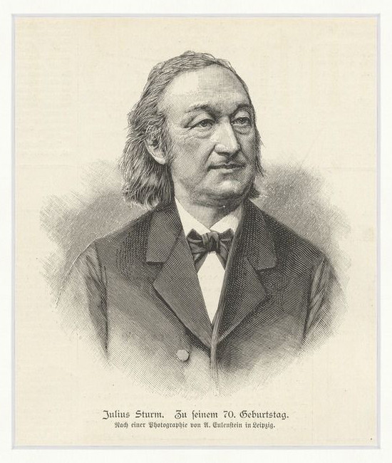 Depicted person: Julius Sturm